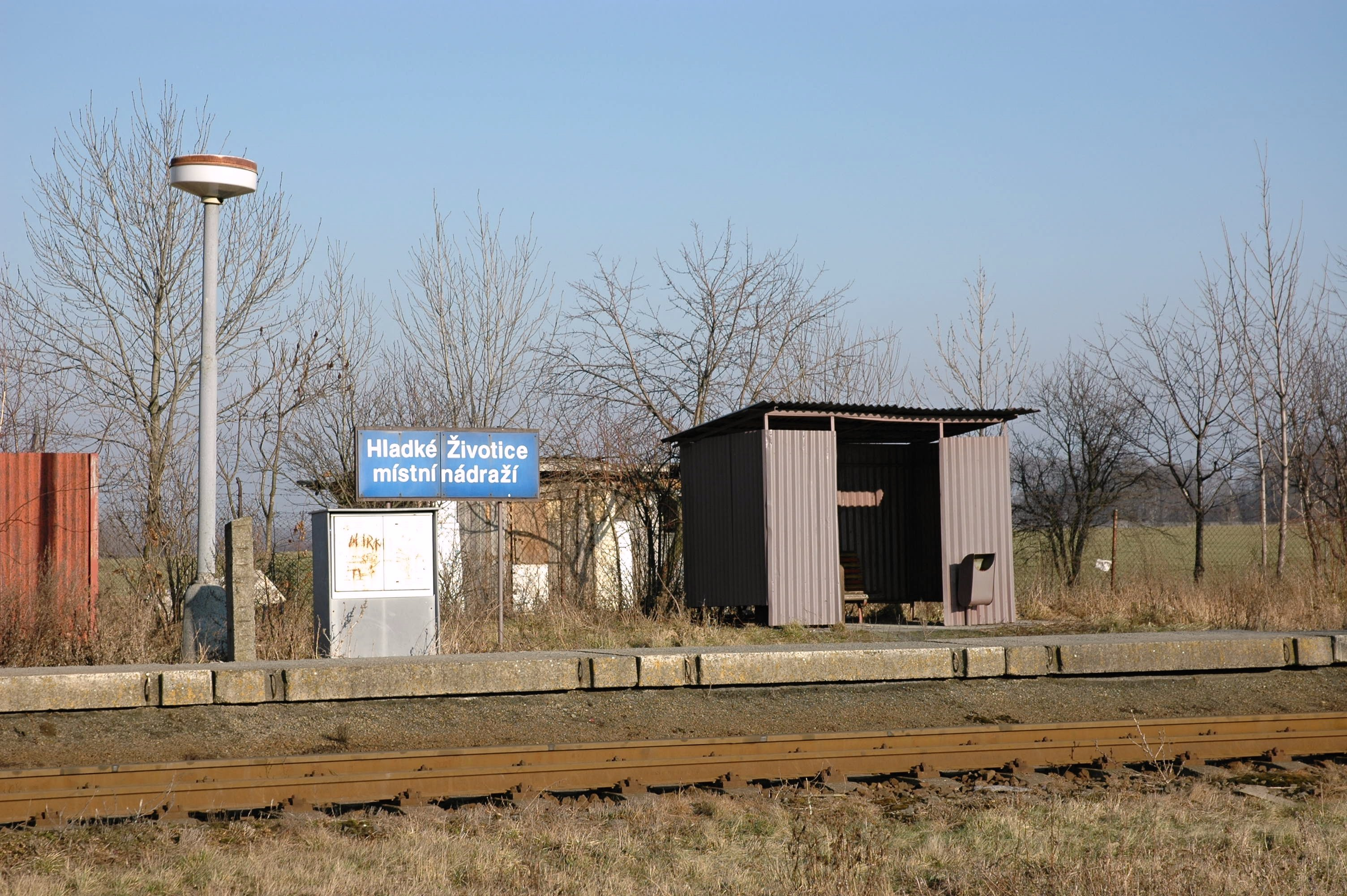 Hladké Životice místní nádraží railway stop, the Czech Republic